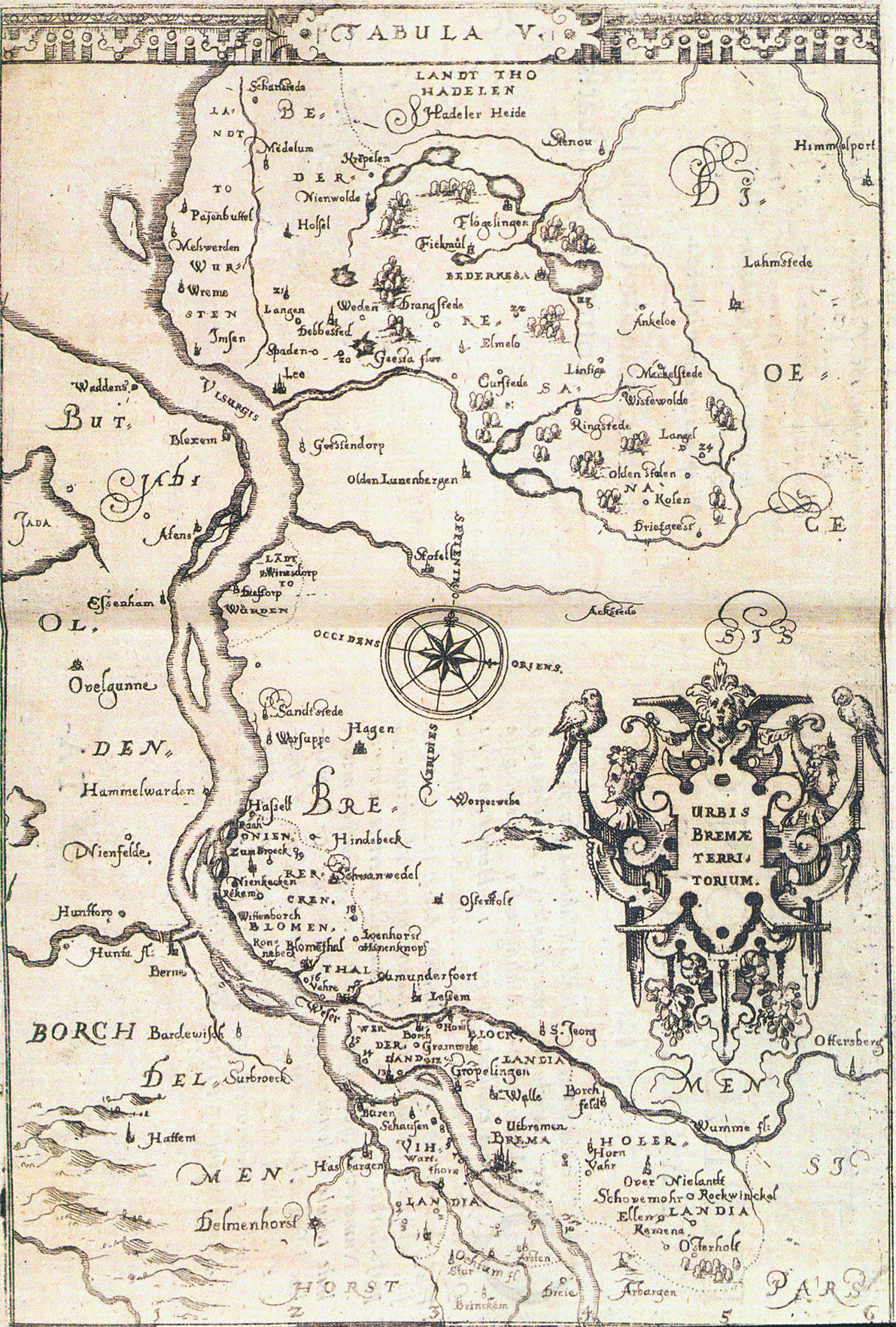 Urbis Bremae Territorium (Tabula V). Map of the territories of the city of Bremen at the beginning of the 17th century, published in the Dilich-Chronik in the year 1603.